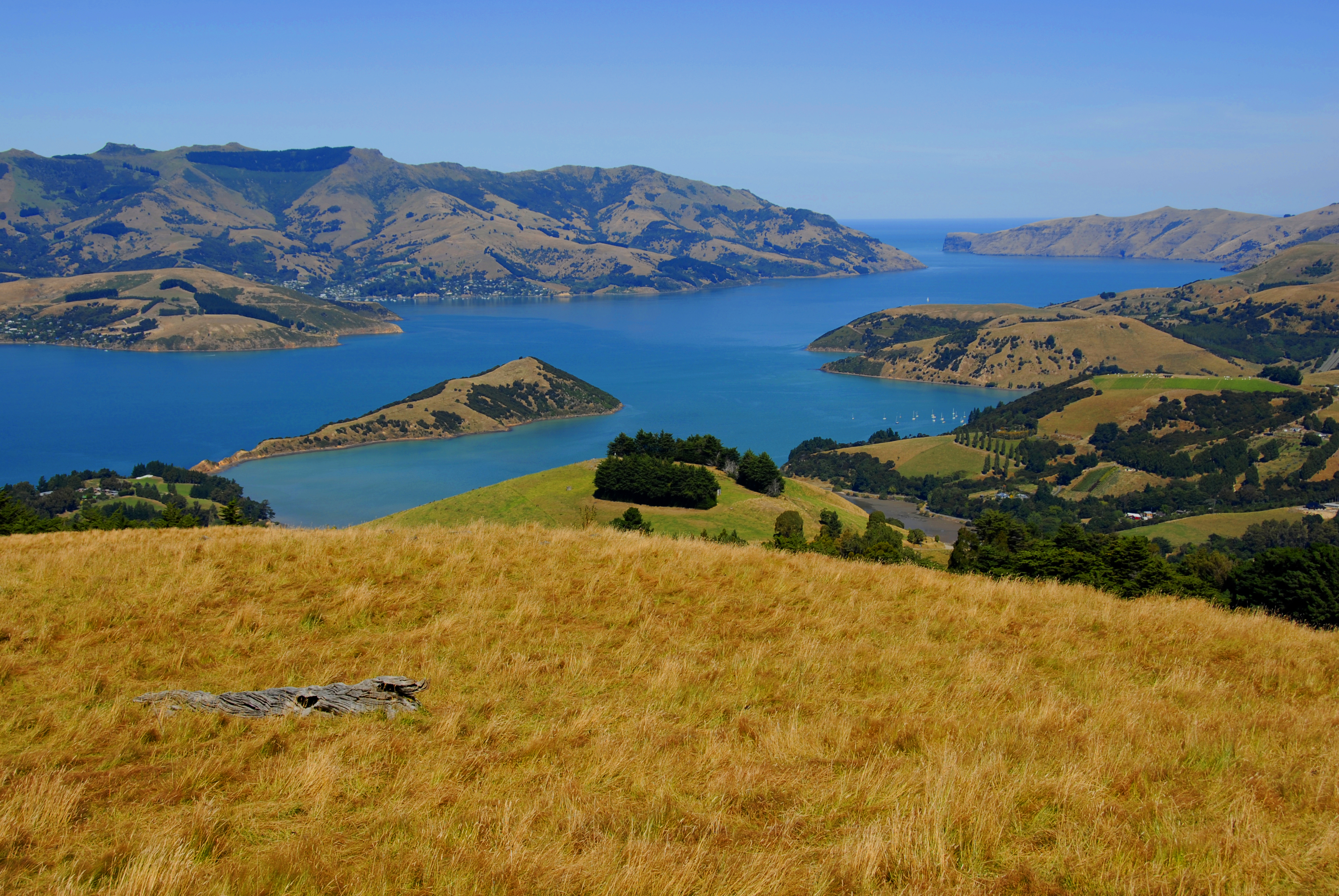 New Zealand - Canterbury Plains- Akaroa Region, Akaroa